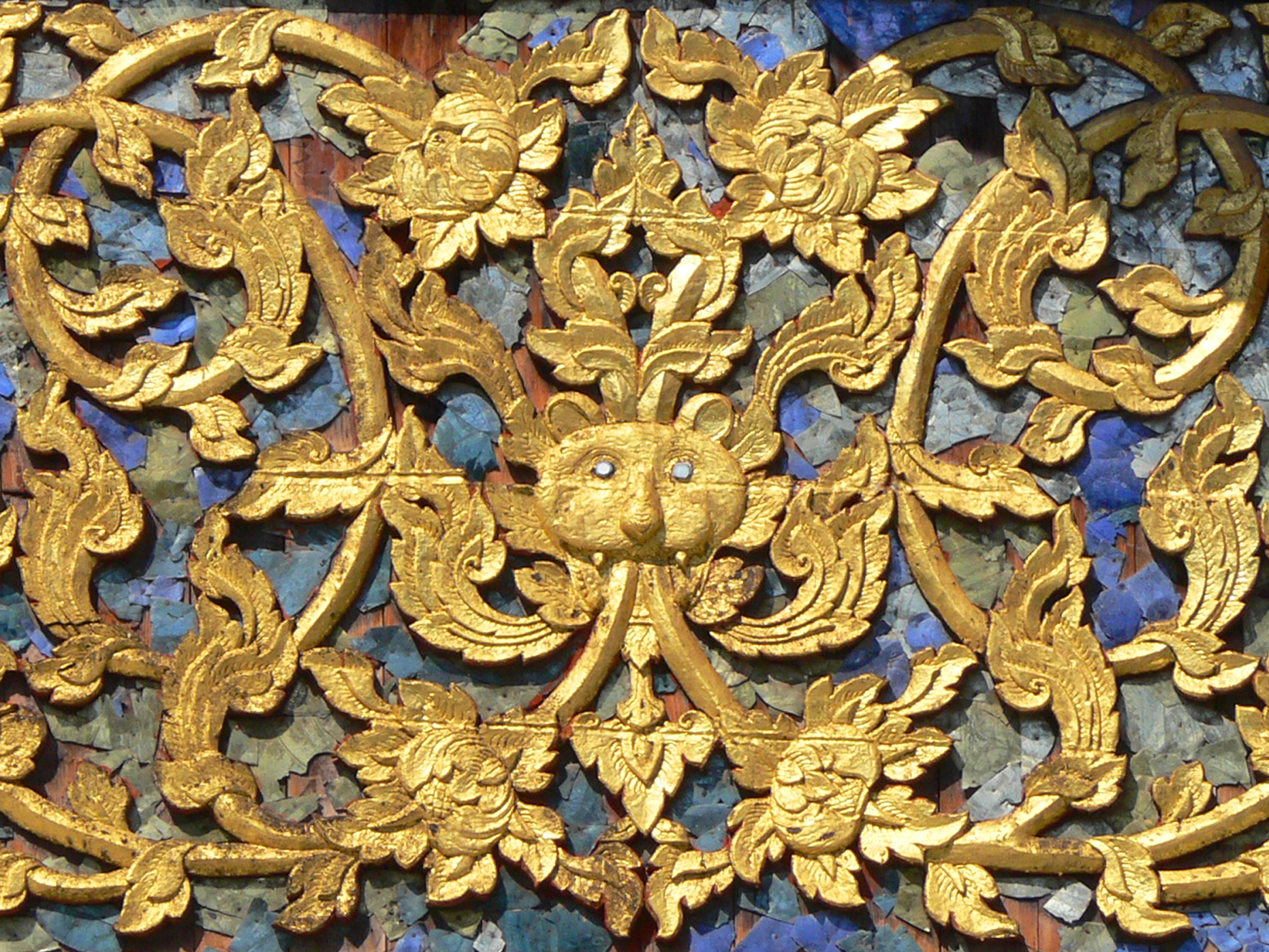 Kirtimukha face in Wat Chiang Man, Chiang Mai, Thailand